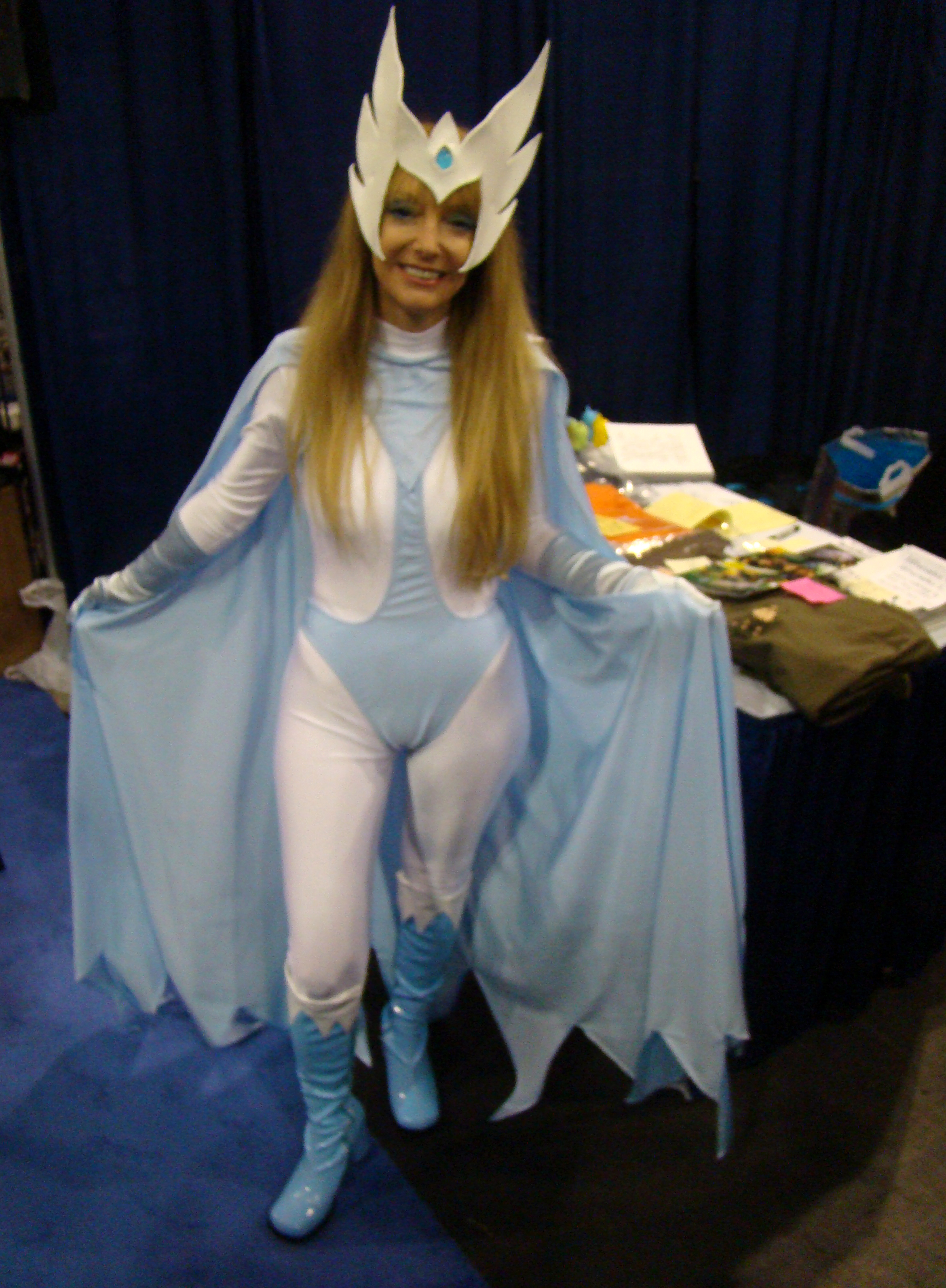 snowbird, from alpha flight. this and the dazzler costume i saw were the highlights of my con experience. New York Comic-Con, Saturday, February7th, 2009. If you see yourself in this or any of my other pictures, let me know in the comments, or by emailing me at loser: [at] istolethe [dot] tv.